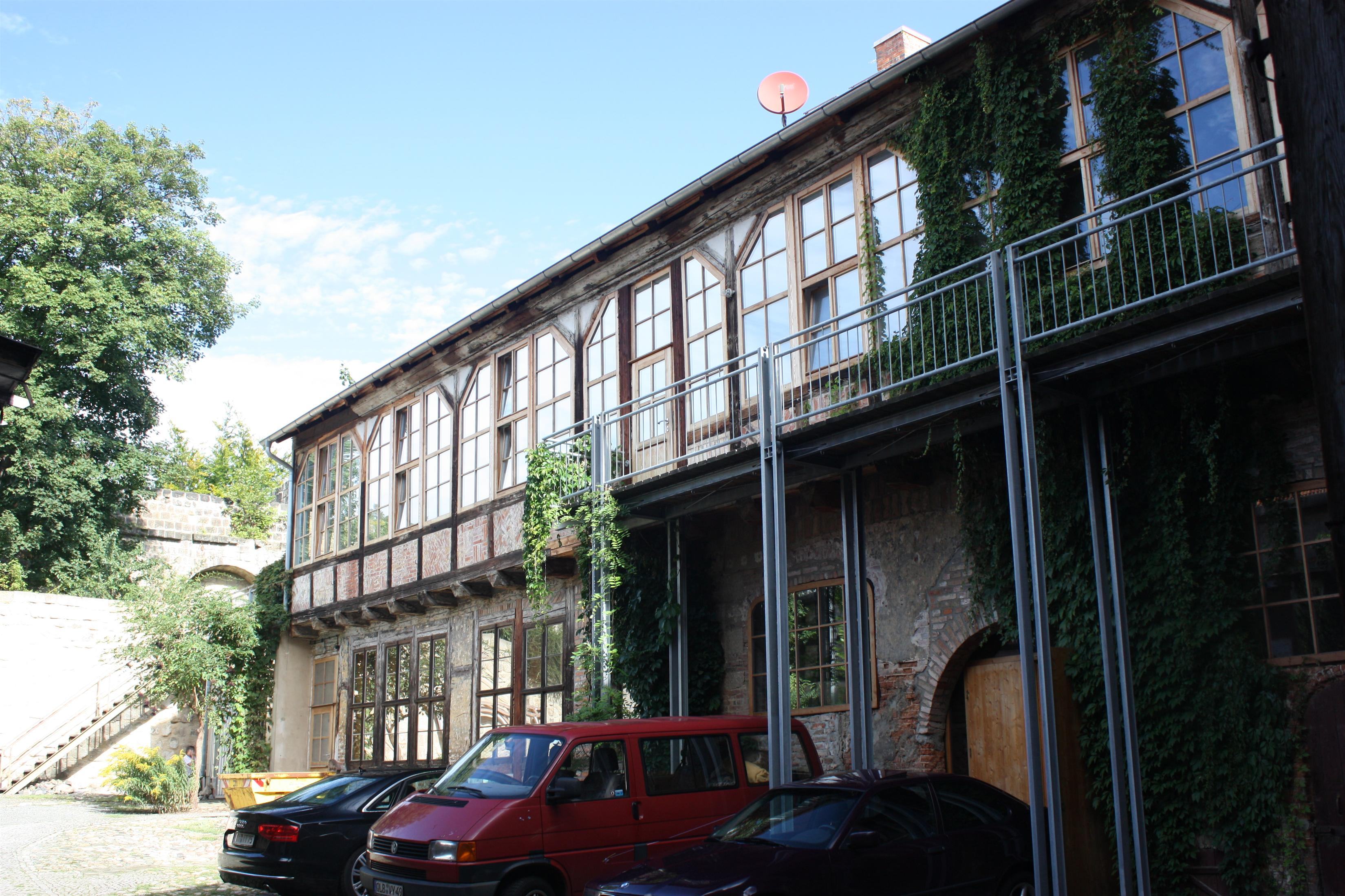 This is a photograph of an architectural monument.It is on the list of cultural monuments of Quedlinburg Hohe Straße 27